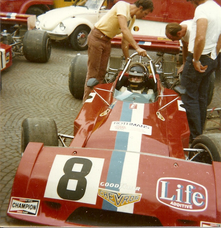 Peter Gethin, Chevron B28, Monza round of the 1974 Rothmans 5000 European Championship. Refer Rothmans F5000 Championship round, Monza, 30 Jun 1974